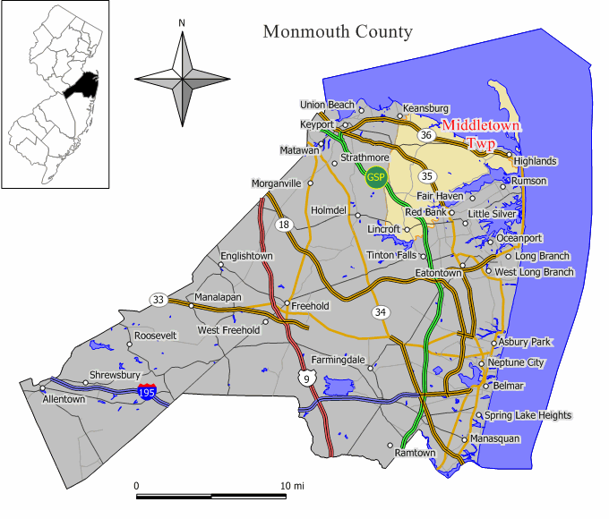 Source: Jim Irwin